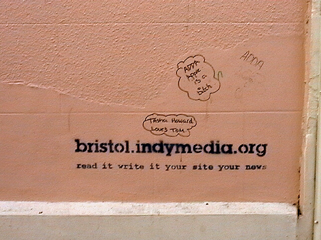 Graffito advertising the Bristol Indymedia collective.bristol indymedia